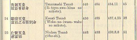 Detail of page 13 of Ernest Mason Satow: Japanese Chronological Tables (u. a.), Nachdruck der Ausg. Yedo 1874, Bristol: Ganesha 1998, showing entry pertaining to Princess Itoyo/Tsunuzashi Tennō (said to have reigned in 484) in his list of Tennō.